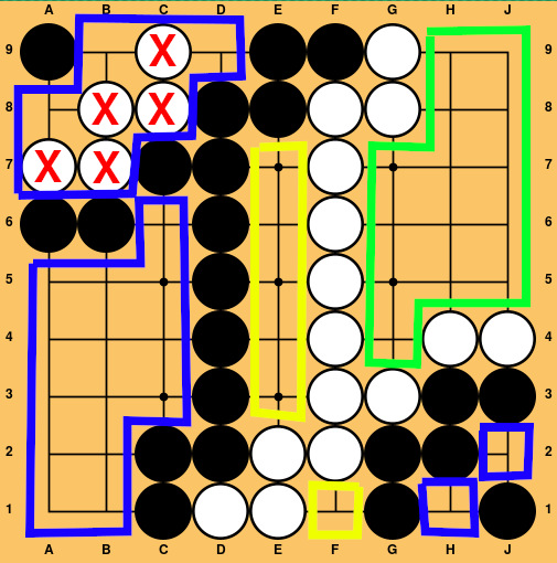 The end of a simplified 9x9 Go match. The areas in blue represent Black's territory (the white stones marked with the red X are dead, i.e., they cannot avoid capture and are thus prisoners, which is why the upper left corner is also part of Black's territory); the area in green represents White's territory; the areas in yellow are "dame:" they don't belong to either player.